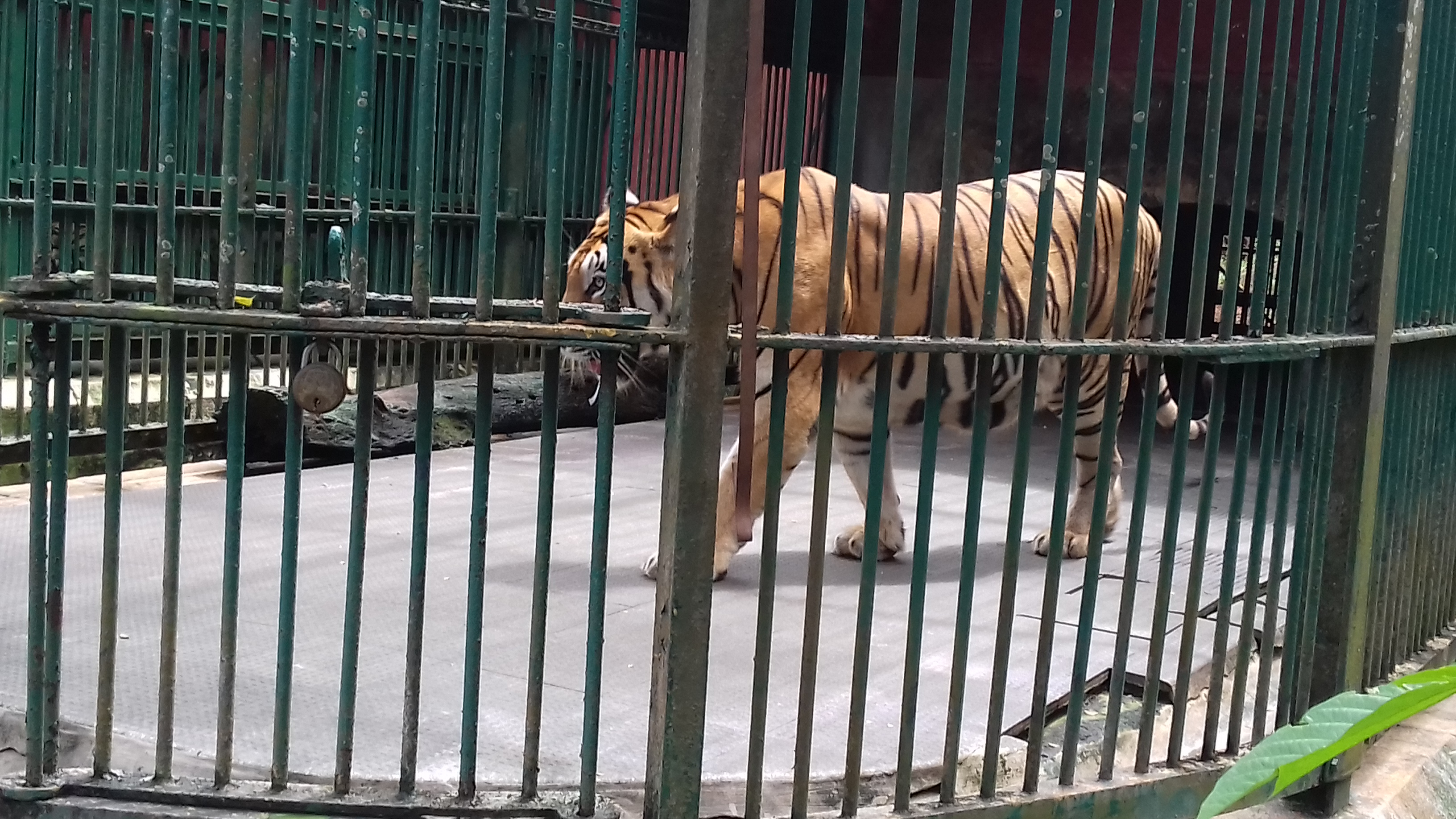 Tiger in TVM Zoo